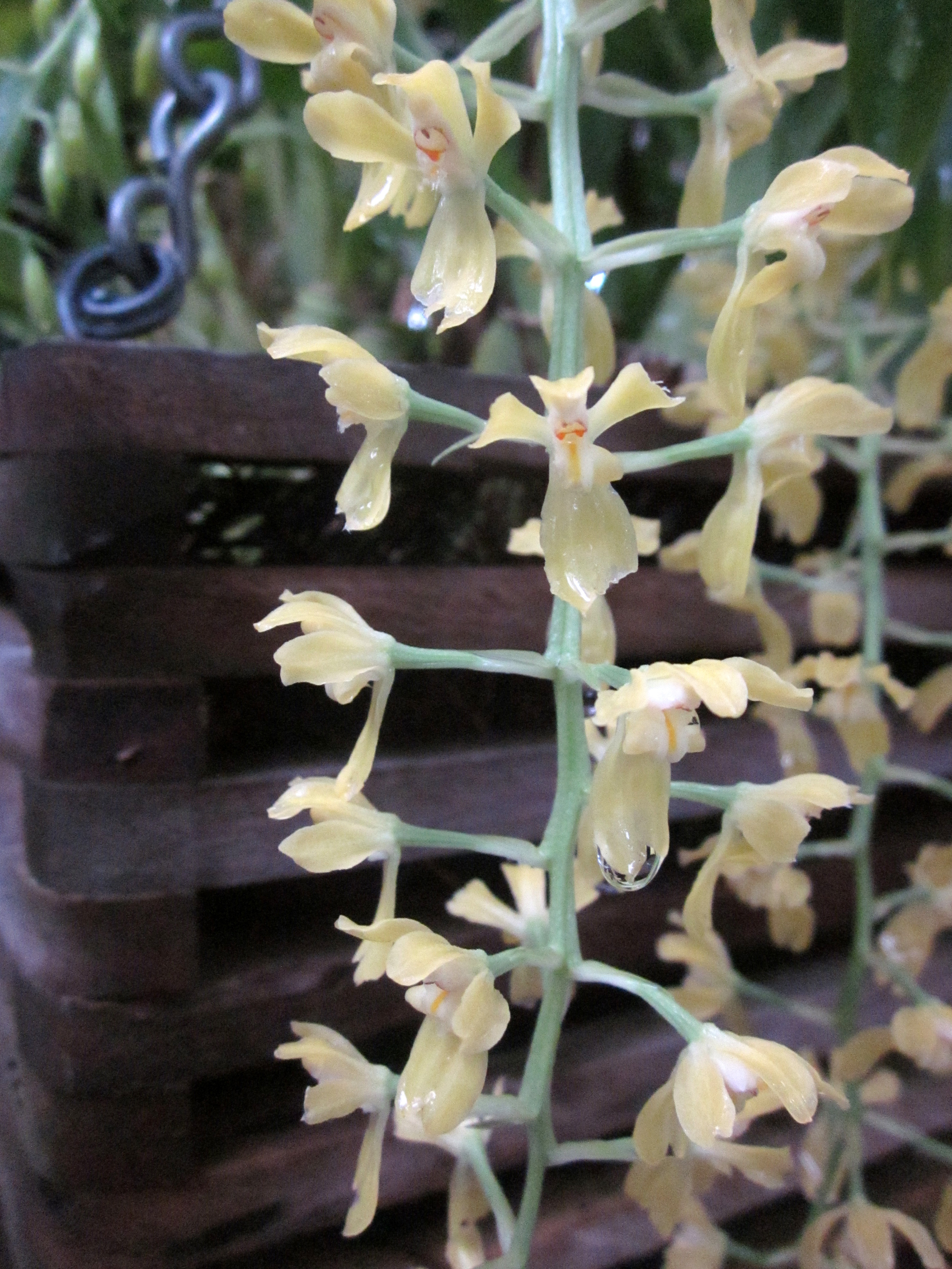 Flowering Gomesa brasiliensis at the University of Cambridge Botanic Gardens, United Kingdom